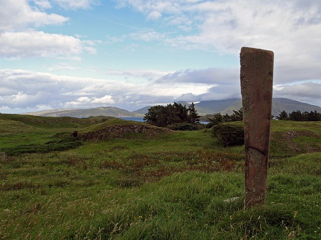 Punishment Stone, A'Chill Standing stone at the site of the oldest settlement on Canna. There is a whole in the stone into which thumbs may have been pushed as a punishment. Guirdil on Rum in the background.